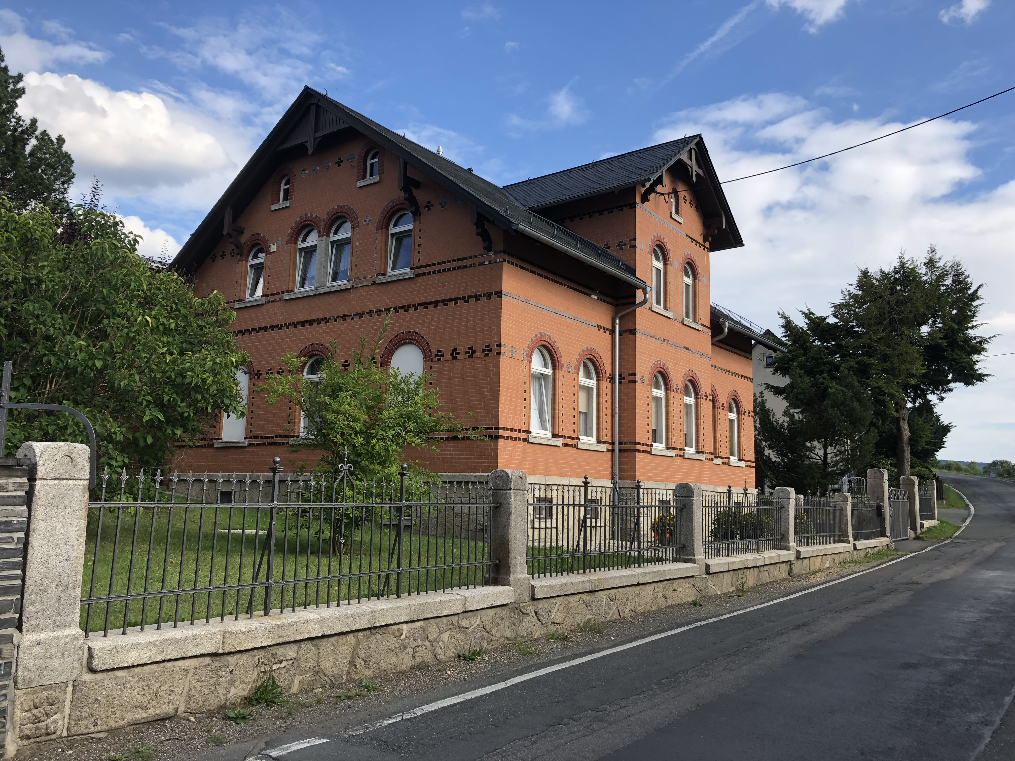 Residential house with enclosure built between 1902-1903 in Schönau/Vogtl. Germany, Treuener Straße 6.